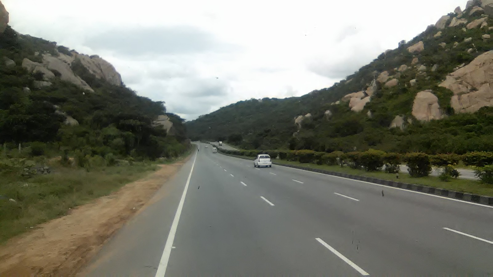 கிருட்டிணகிரி- ஒசூரை இணைக்கும் மேலுமலைக் கணவாய்